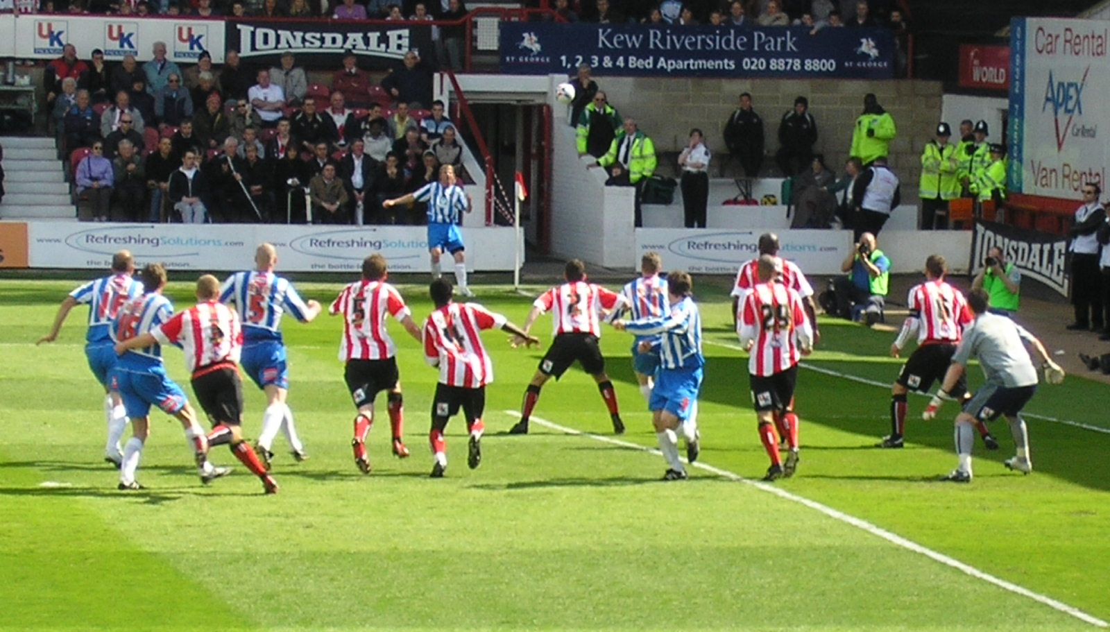 Brentford defending a Hartlepool United corner kick during an association football match.